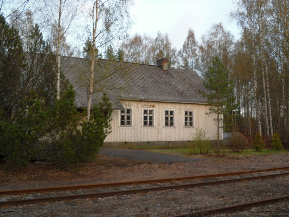 Former Lapinneva railwaystation